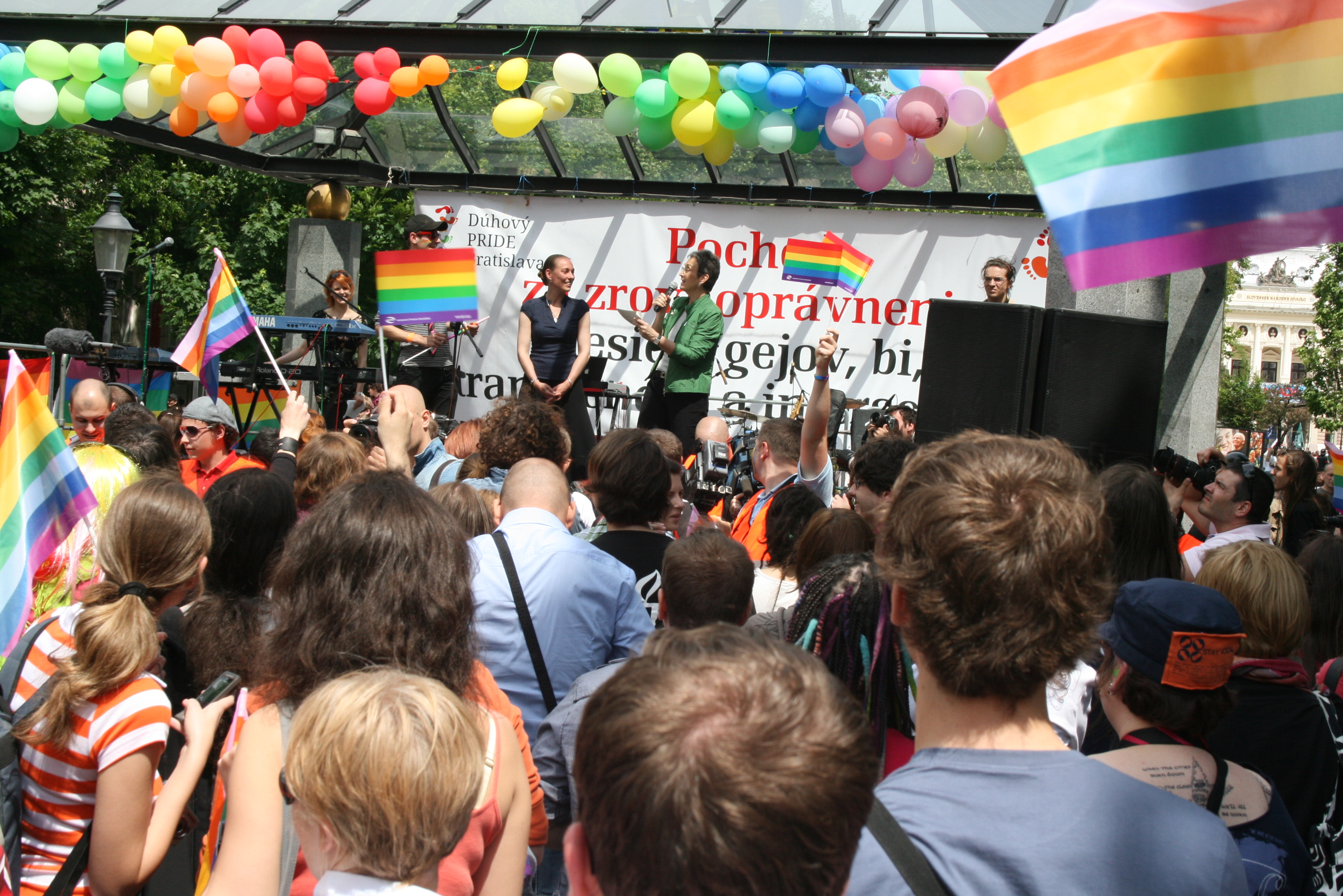 Dúhový Pride (LGBT pride parade) in Bratislava 2010.